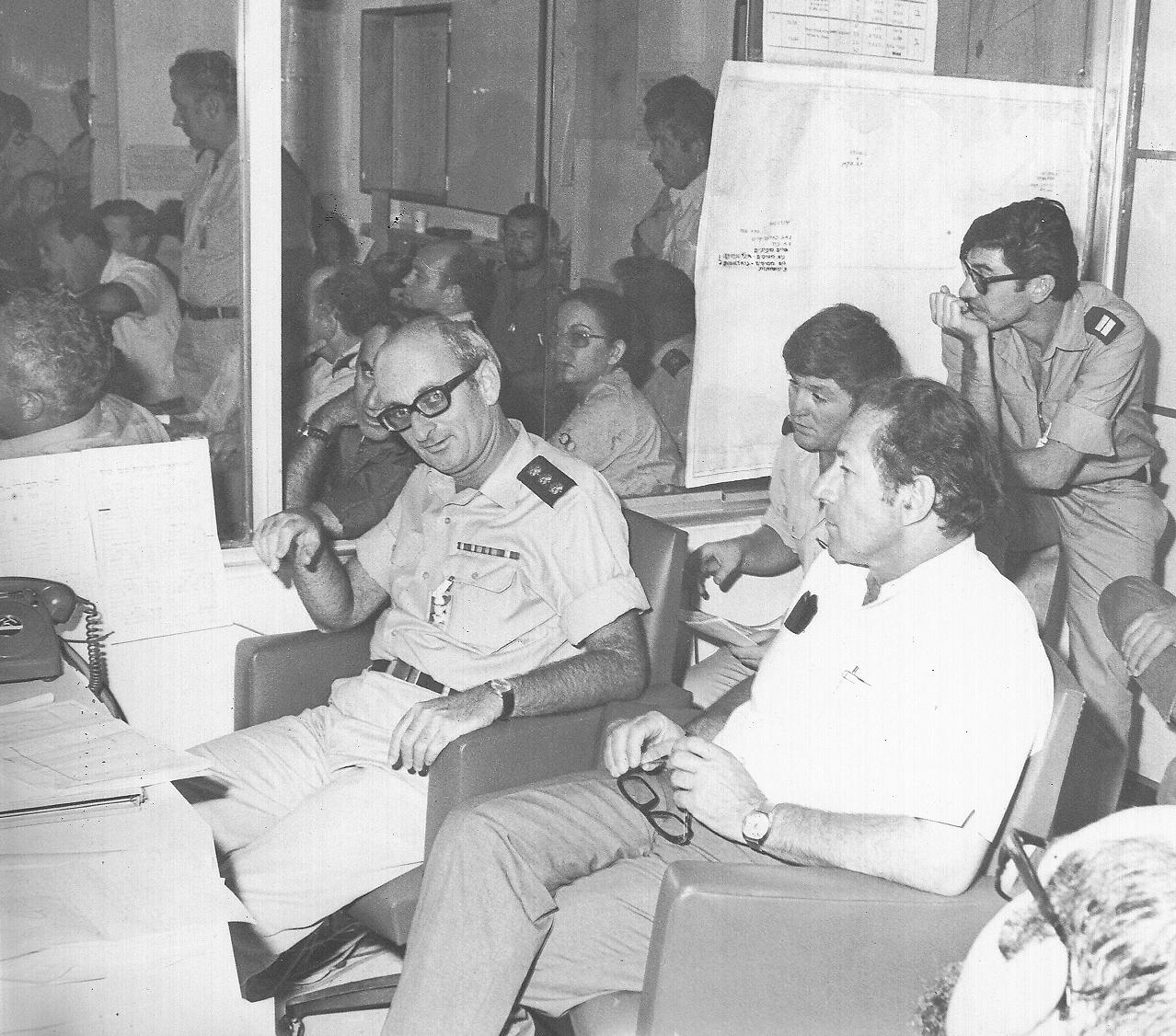 Rami Lunz, Naval Command during The Yom Kippur War, Israel Defense Forces. In the photo together with Brigadier General, Rami Lunz: Brigadier General (retd.) Zvi Keinan, Major Michael Koren (Korkis) and Lieutenant Meir Toledano. Photo courtesy of: Clandestine Immigration and Naval Museum